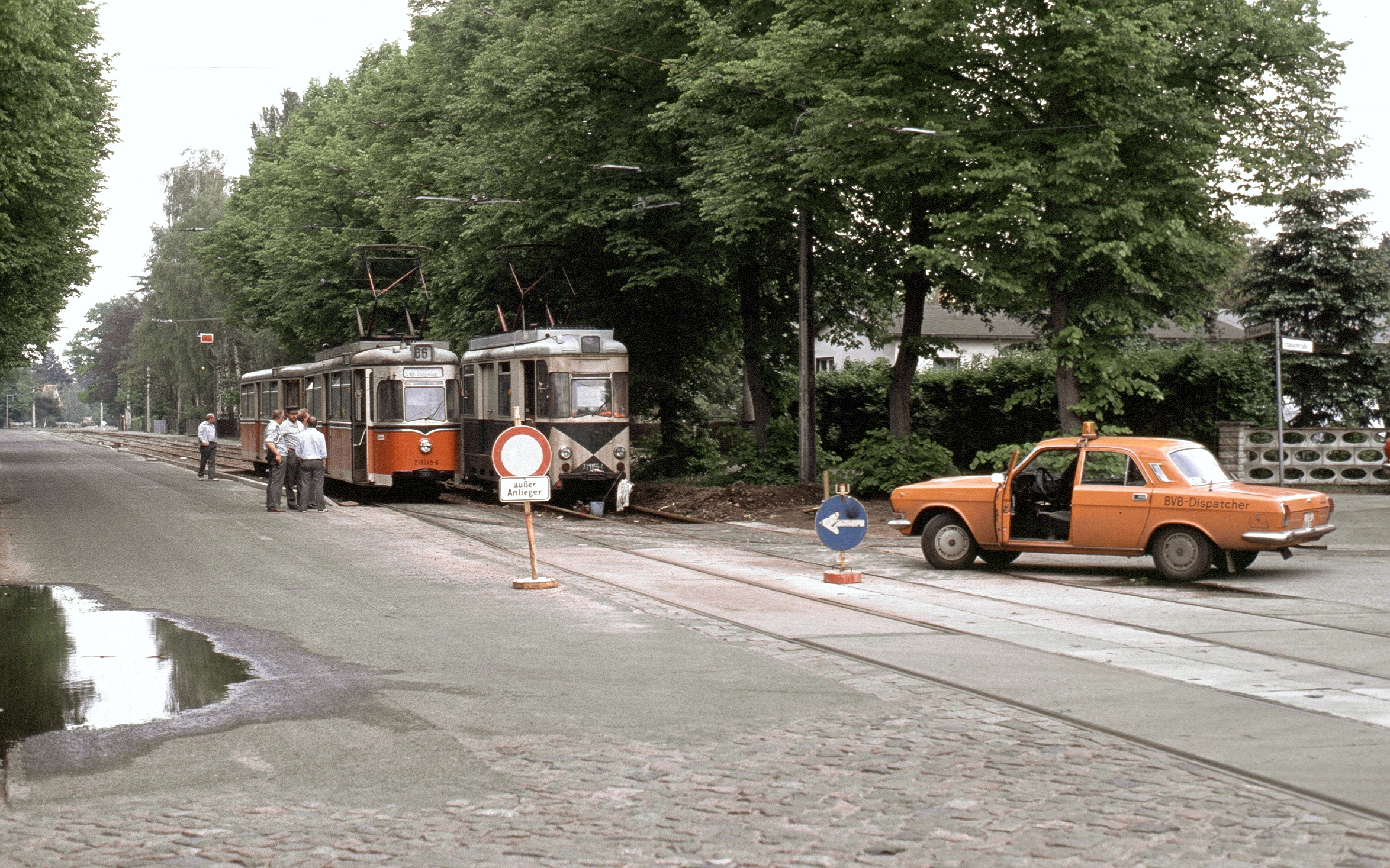 Berlin Vetschauer Allee